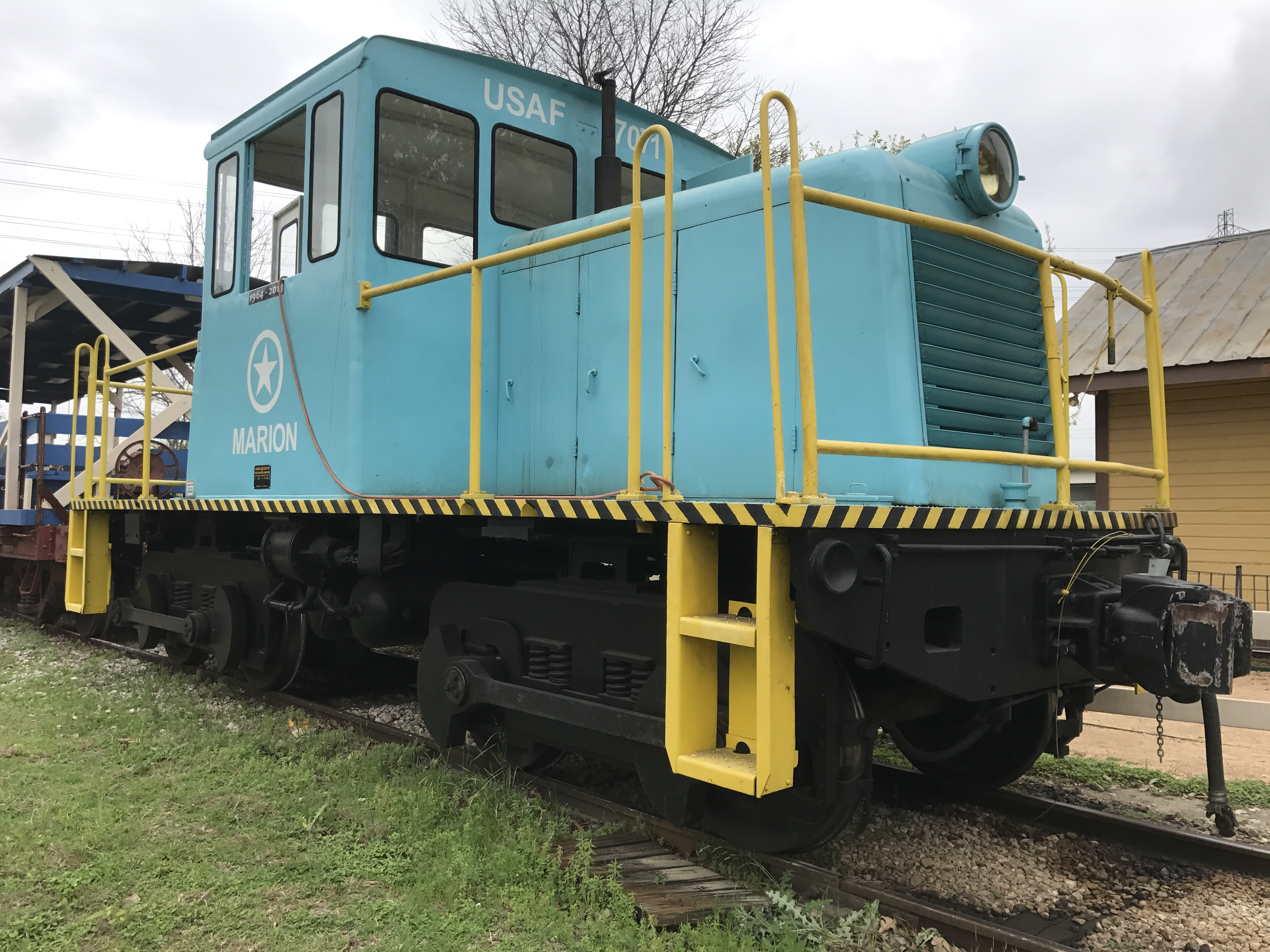 Picture of the 1942 General Electric 45 Ton locomotive at the Texas Transportation Museum in 2017.